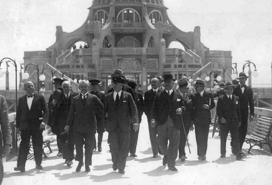 Italian Prime Minister Benito Mussolini with the Turkish Prime Minister İsmet Pasha (İnönü) during the latter's State visit in Italy; here at the restaurant of the beach resort "Roma" at Lido di Ostia, the seaside quarter of Rome.